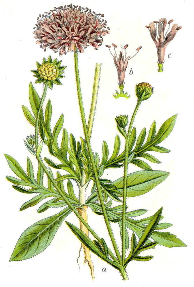 Knautia arvensis (L.) Coult. s. str. Original Caption Acker-Skabiose, Knautia arvensis